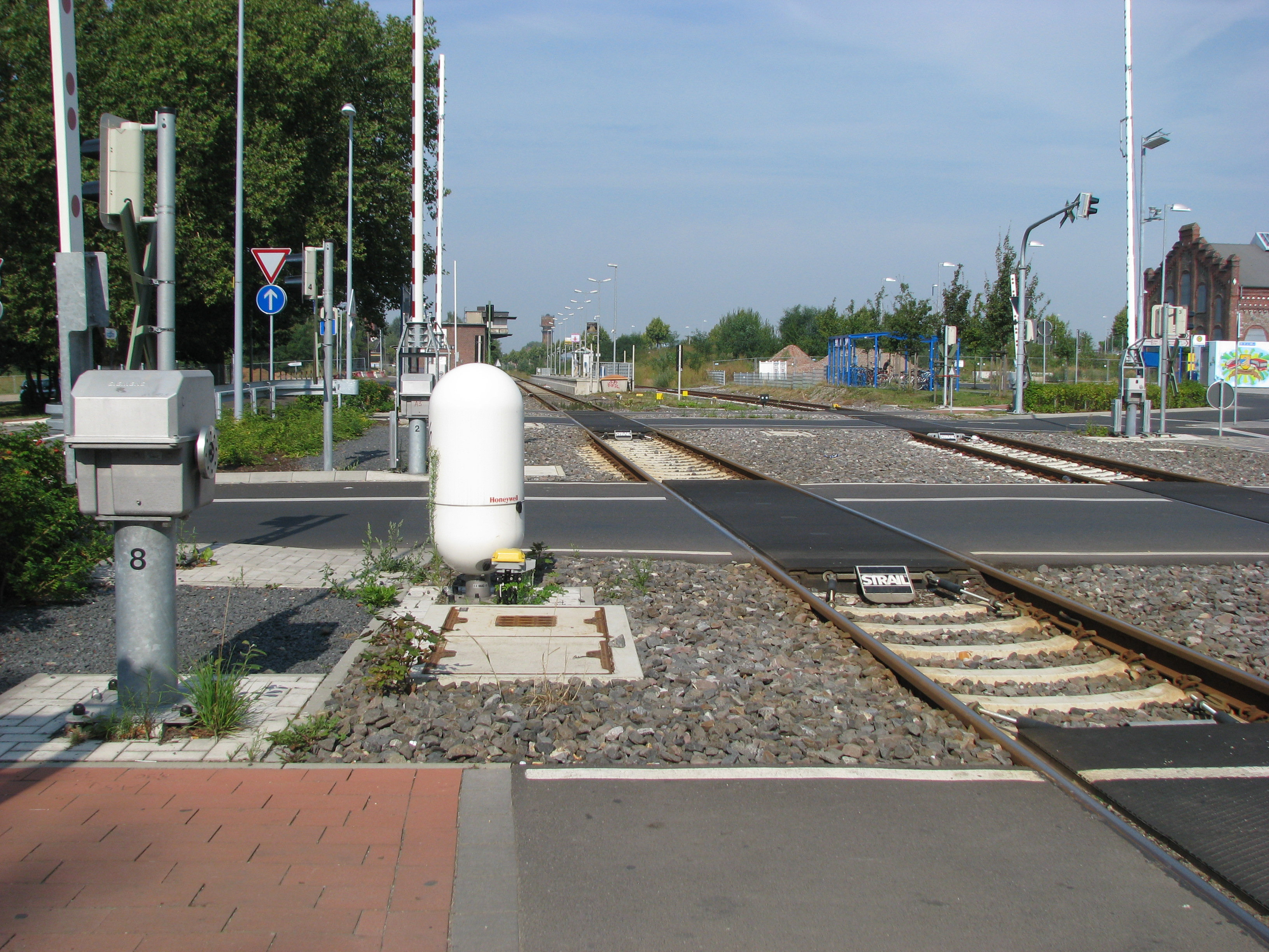 Bahnhofstraße level crossing in Alsdorf, on the Annapark section of the Stolberg–Herzogenrath railway line. In front is an egg-shaped radar sensor system to automatically detect blockages of the right-of-way produced by Honeywell.